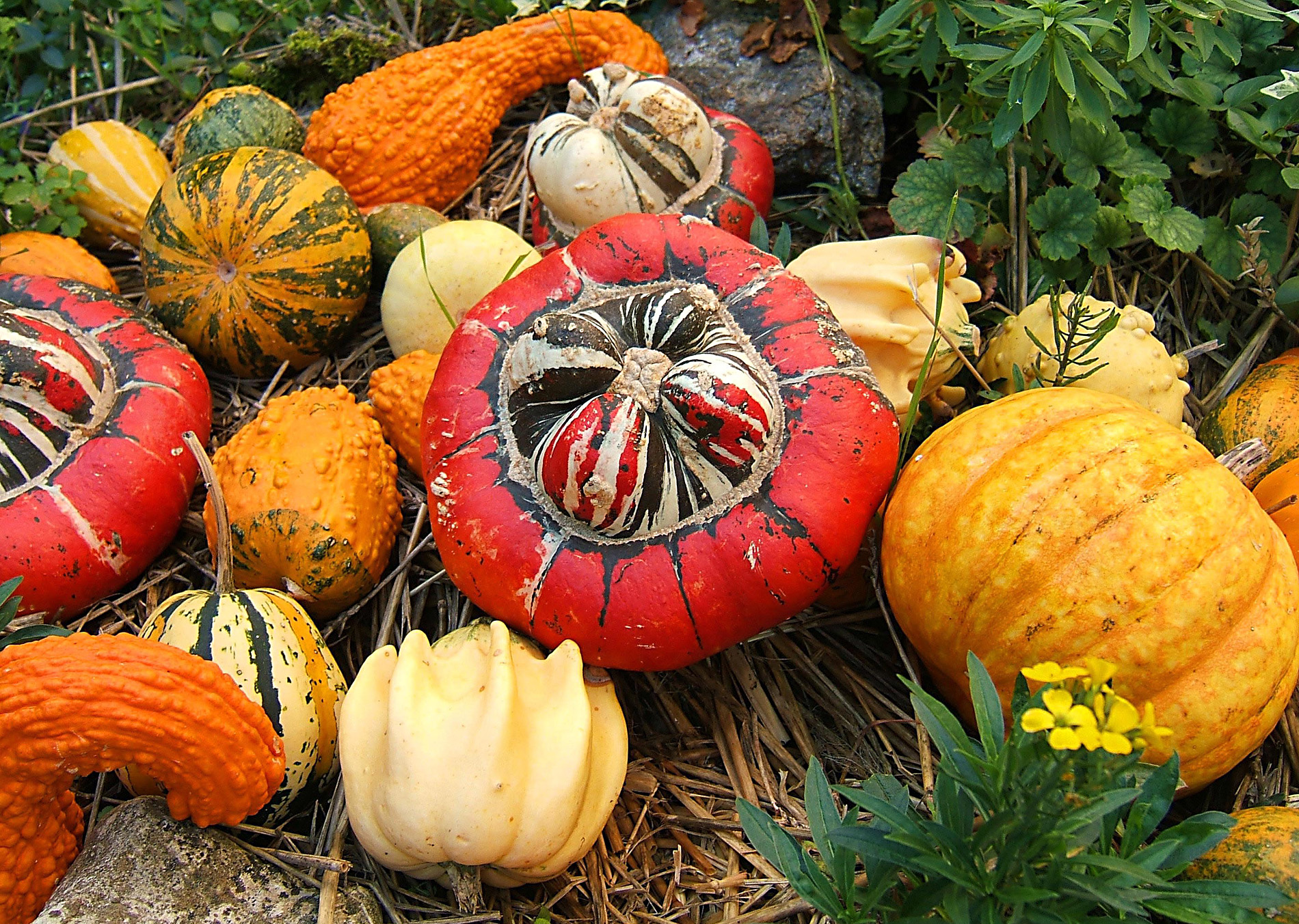 Gourds